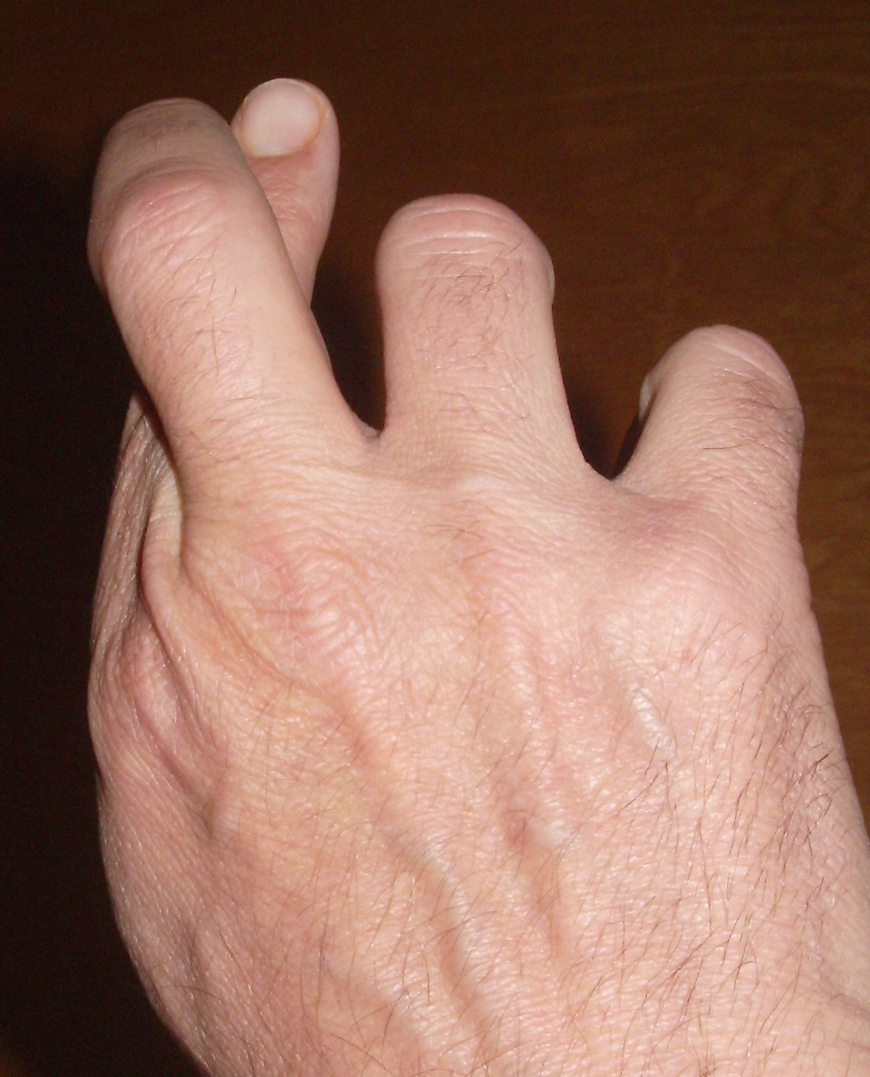 Demonstration of crossed fingers